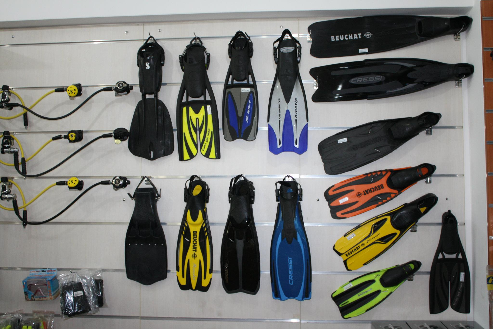 Equipment in a Turkish aquatic supplies store